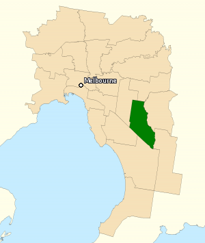 Incorporates or developed using Administrative Boundaries ©PSMA Australia Limited licensed by the Commonwealth of Australia under Creative Commons Attribution 4.0 International licence (CC BY 4.0). Derived from State and Territory Boundaries from the Australian Bureau of Statistics under Creative Commons Attribution 2.5 Australia license (CC BY 2.5 AU)